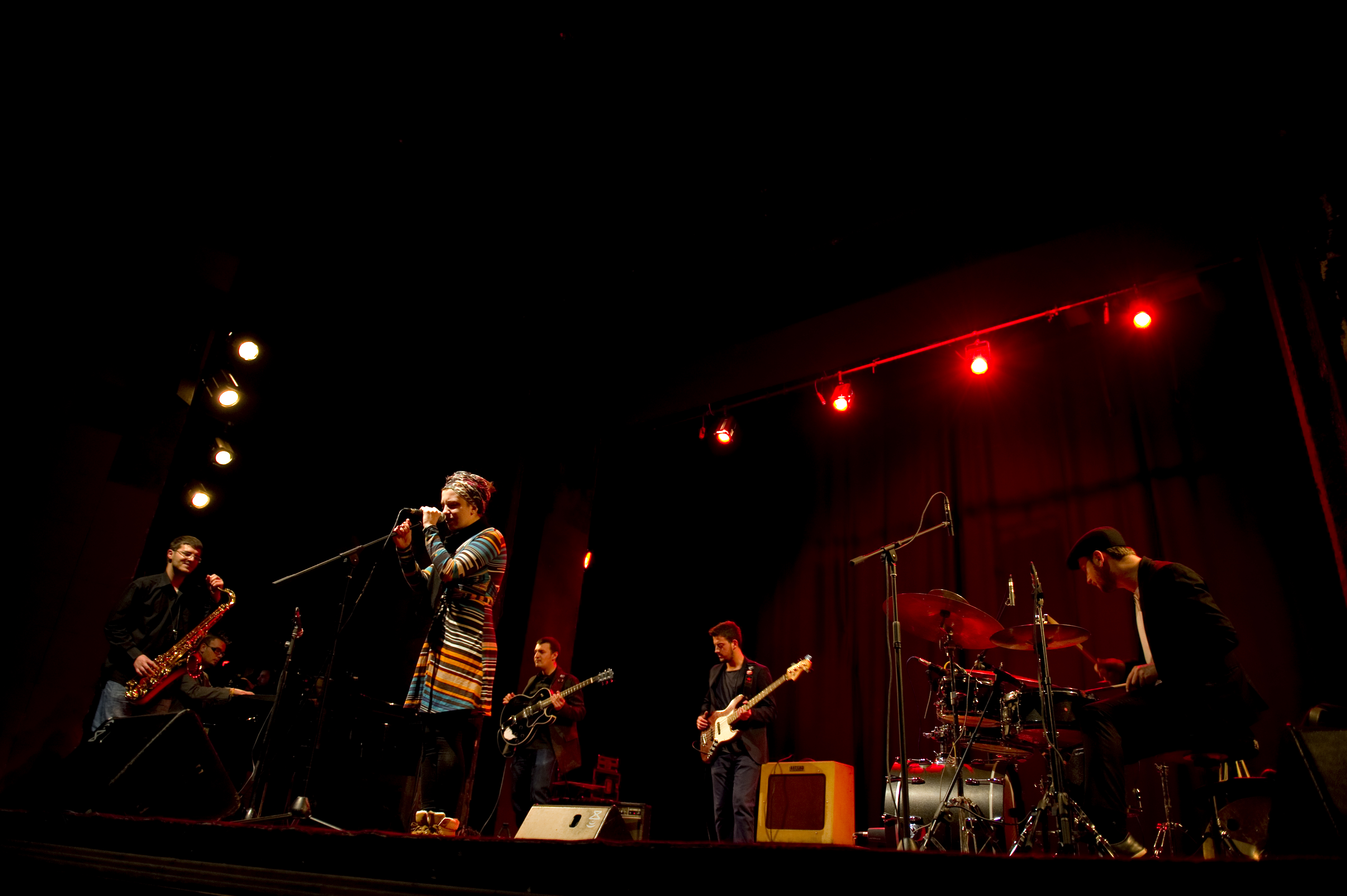 DAM koncerti